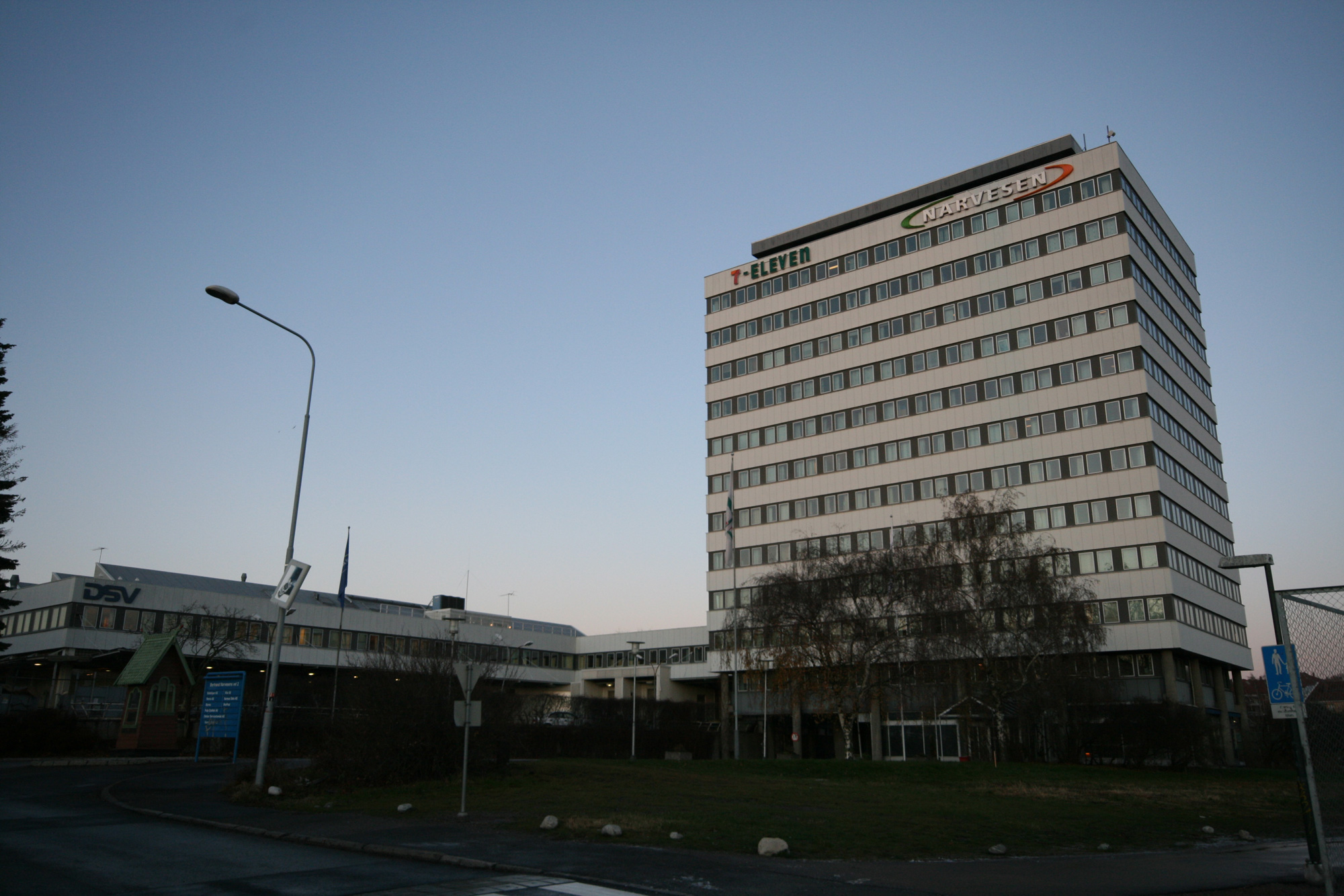 The Narvesen office building at Bertrand Narvesens vei 2 in Oslo. (Proposed changed into apartment building.)